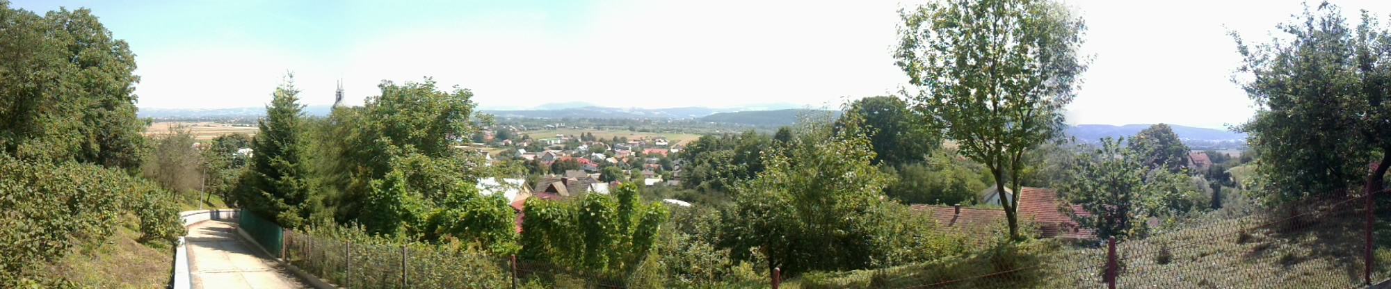 Panorama of Podegrodzie